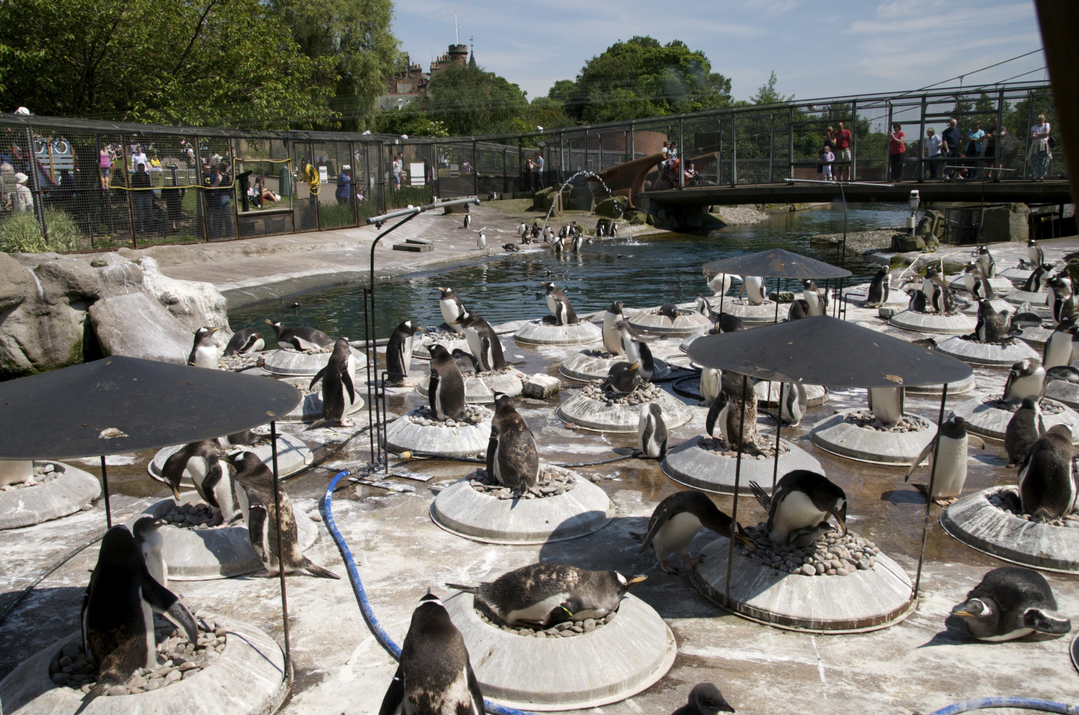 Gentoo Penguins at Edinburgh Zoo, Scotland, UK. The penguins have a pool and artificial nesting sites. Some chicks can bee seen.